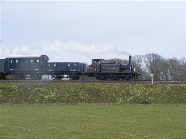 Wagon 16194 near Horsted Keynes